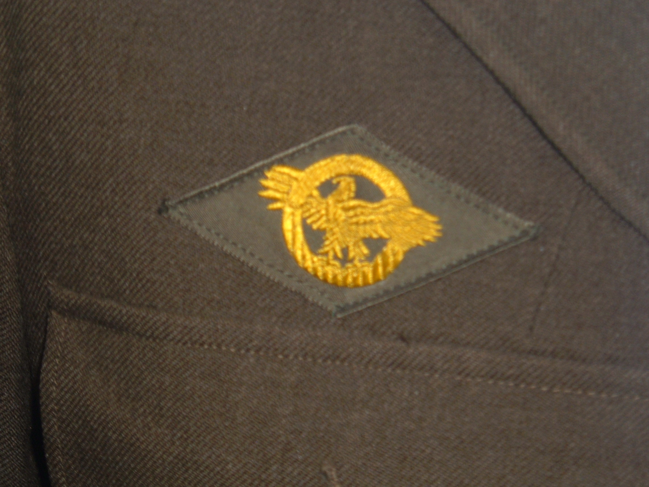 "Ruptured Duck" patch, found on Image:USAAF WW II uniform.JPG. On display at the Pacific Coast Air Museum in Santa Rosa, California. Image:USAAF WW II uniform.JPG